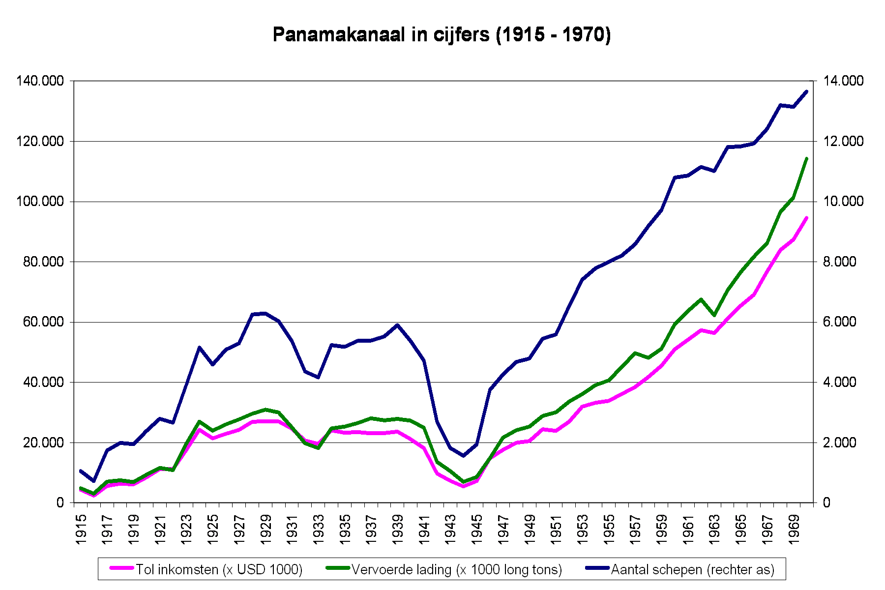 Commercial Ocean traffic on the Panama Canal: 1915-1970. Source: US Bureau of the Census; 'Historical Statistics of the United States'; Colonial times to 1970, part 2, Chapter: Transportation, page 764, Series Q 553-555